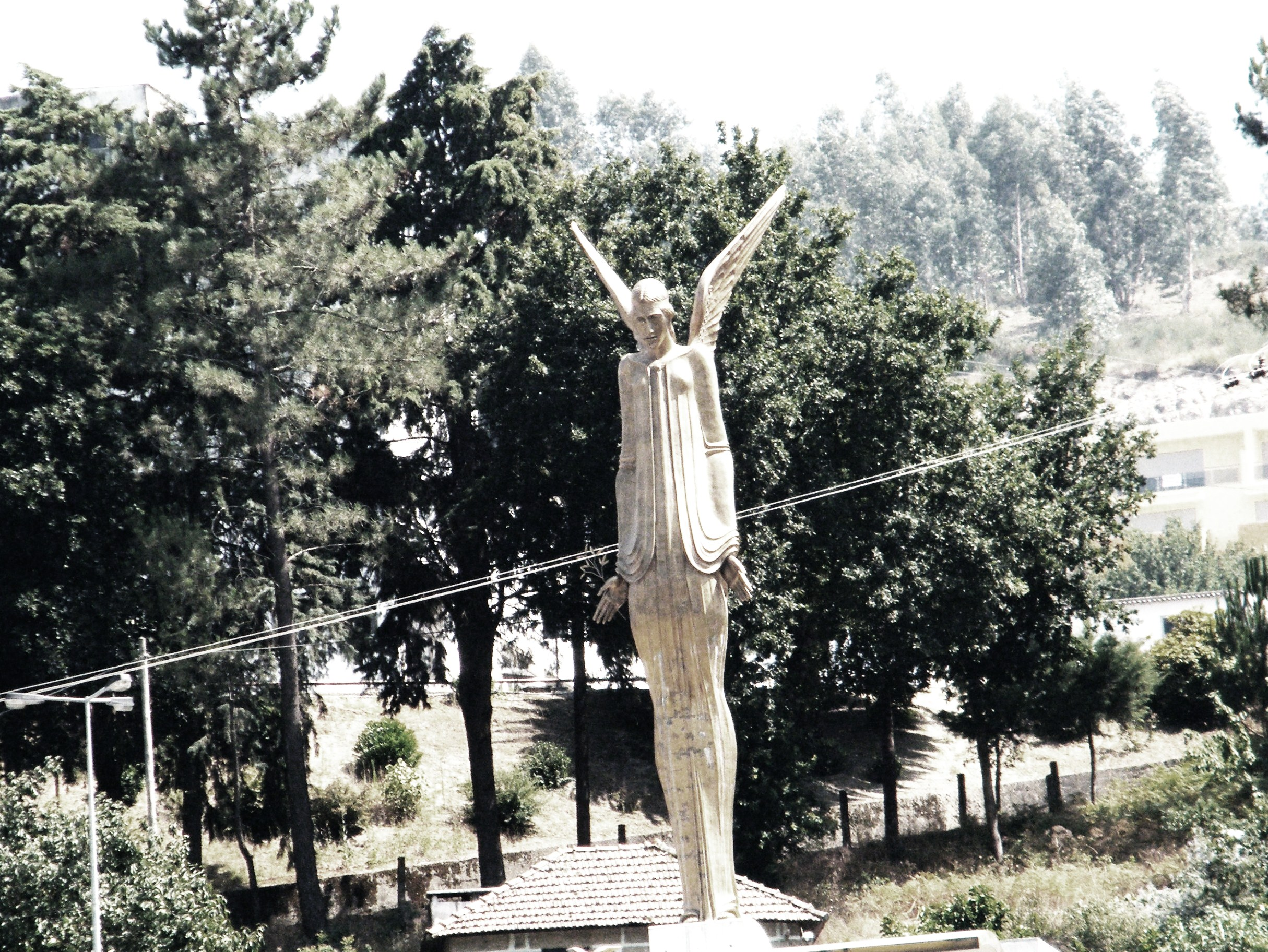 honor monument in memory of the victim´s tragedy in Entre-os-rios-Portugal